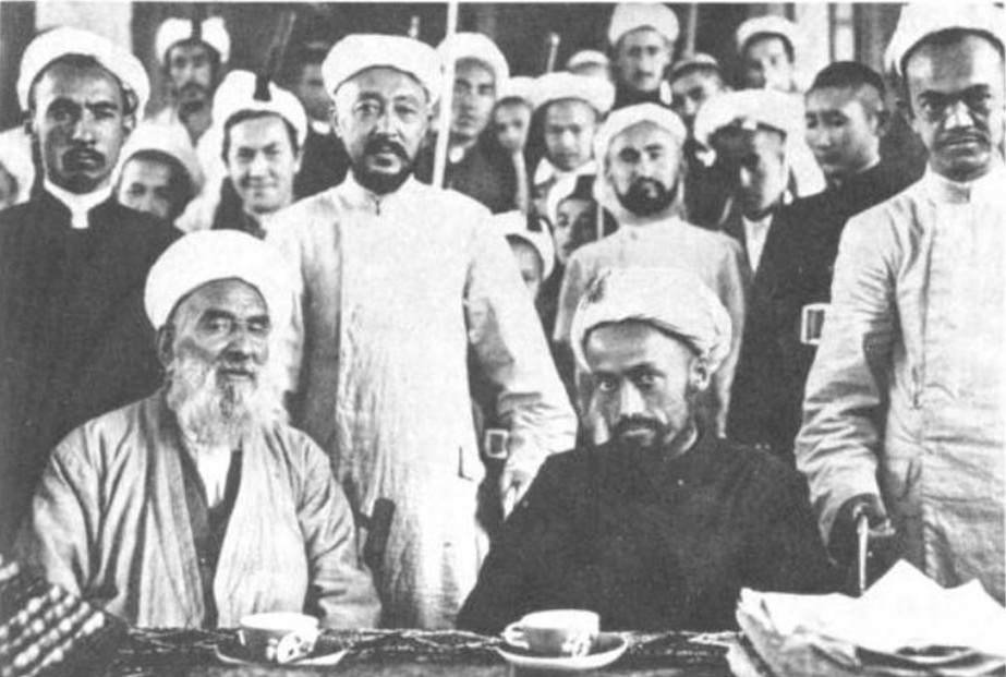 The ulama (islamic religious clergy) of Khotan meet with the uighur Emir Muhammad Amin Bughra, who is in the foreground wearing a black chapan in 1933.